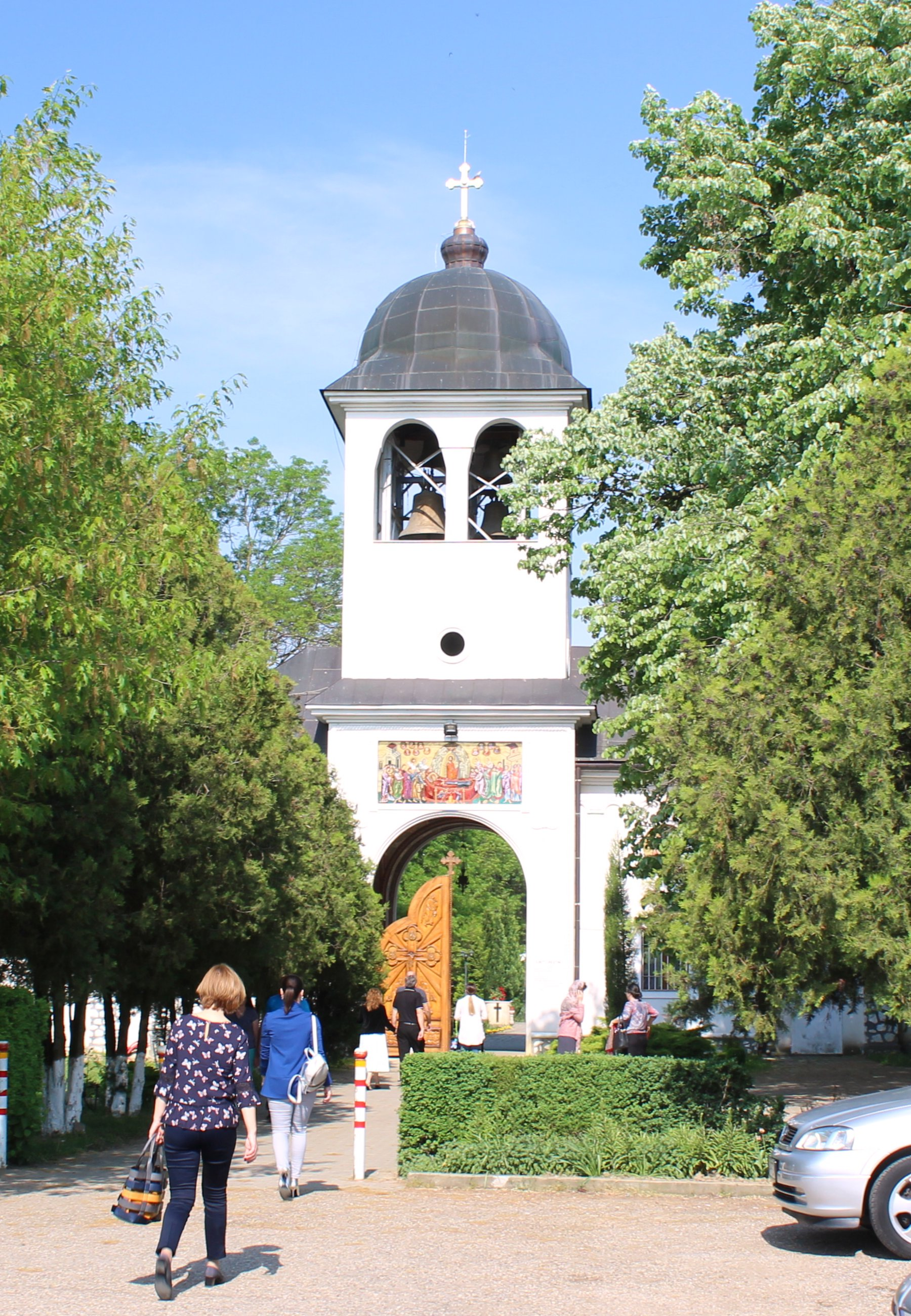 The bell tower of Hodoș-Bodrog Monastery in 2018. Arad County, Romania.